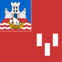 Flag of the city and municipality of Novi Beograd, Serbia